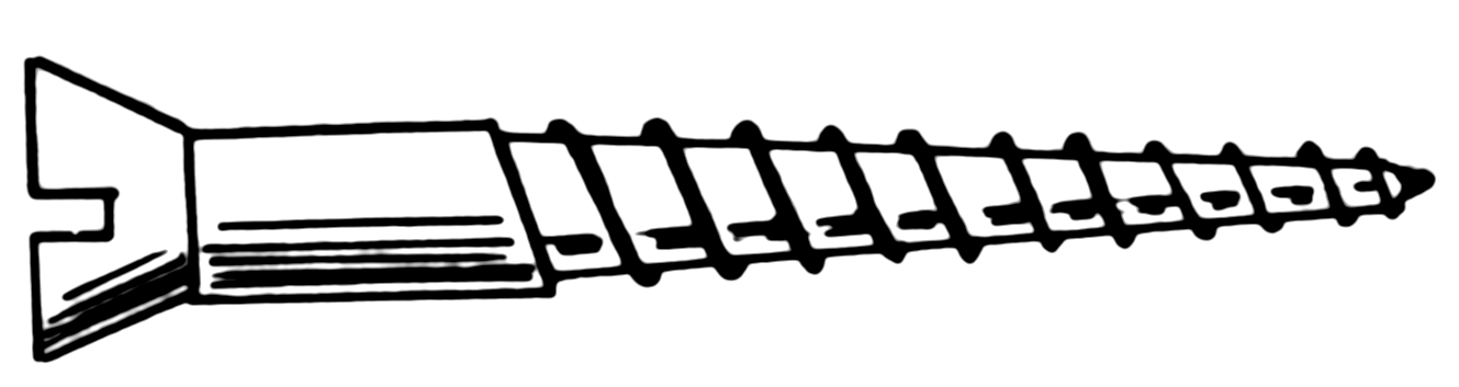 Line art of screw; crop image from Image:Screws (PSF).png